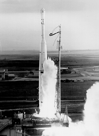 The satellite TIROS designed to obtain cloud pictures was rocketed into space aboard a Thor-Able launch vehicle, in the early hours of April 1, 1960, from Cape Canaveral, Florida.